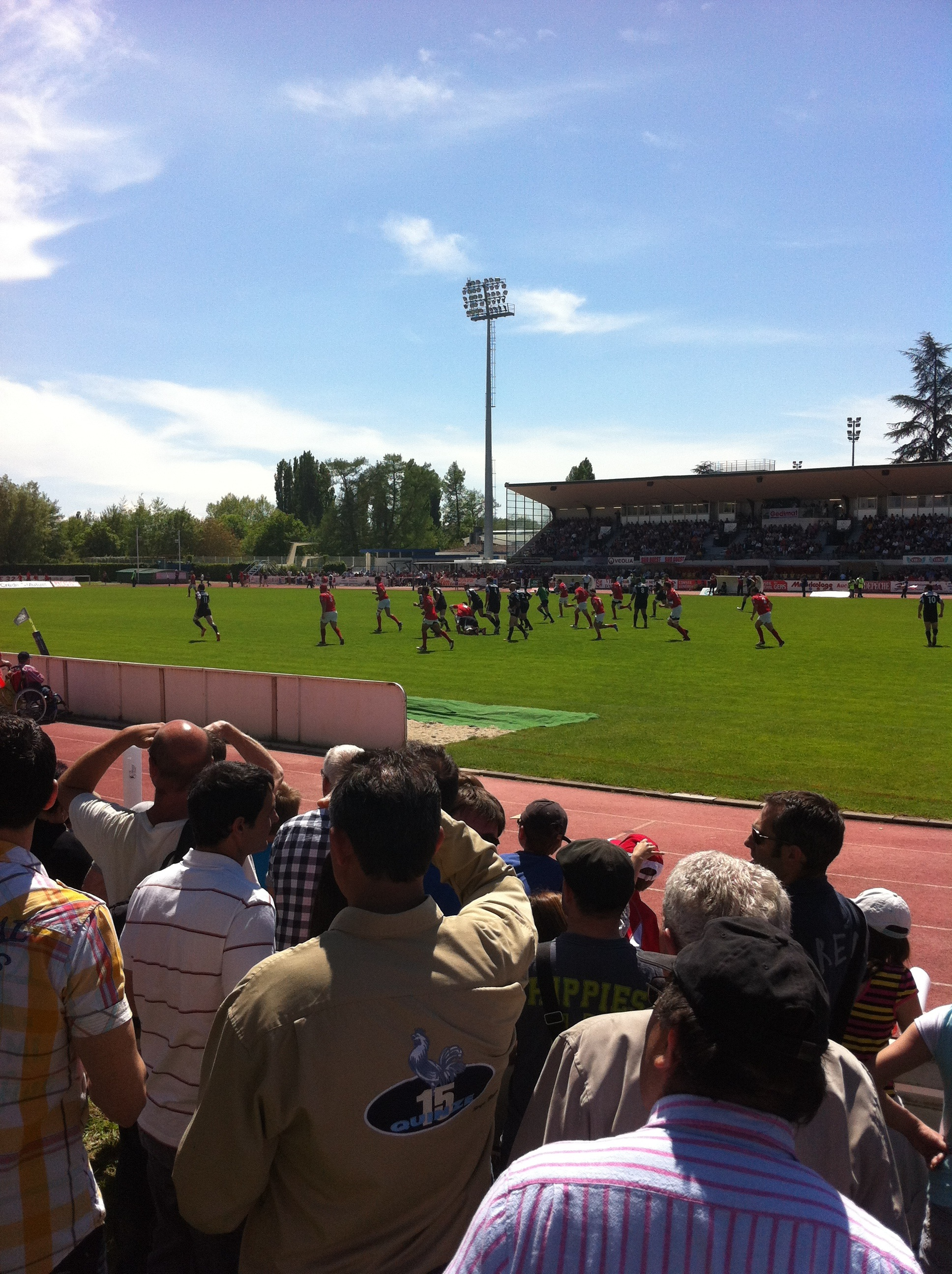 Pro D2 2012-2013 — 25 May 2013, Stade Jacques-Fouroux. Match between: FC Auch Gers — US Dax